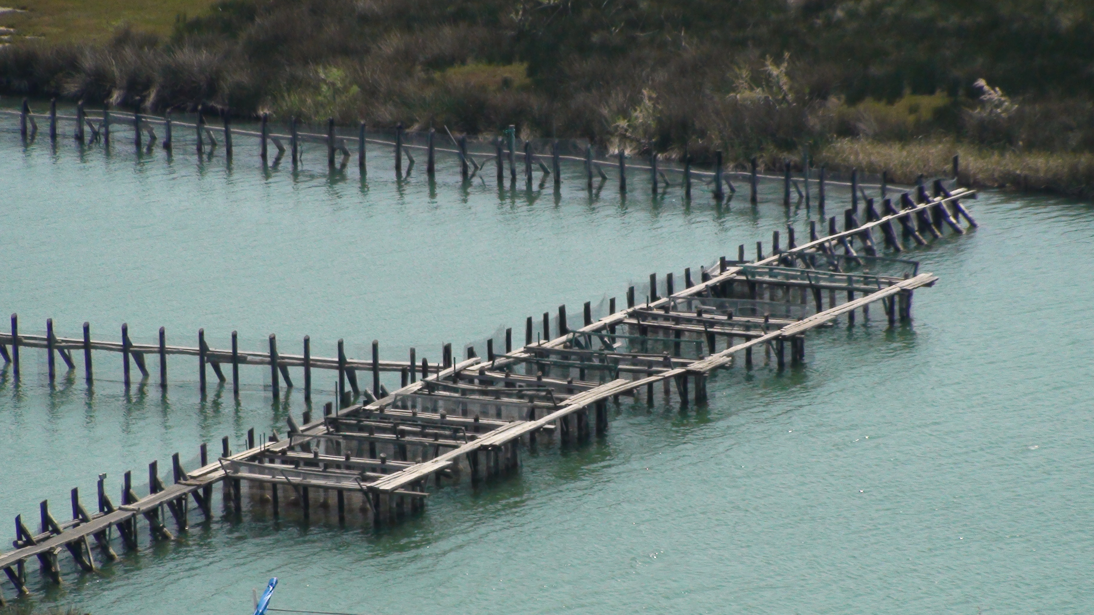 Detail of the dalyan at Kaunos